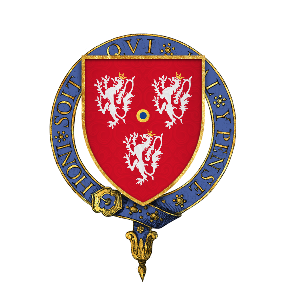 Coat of Arms of Sir Richard de la Vache, KG “Sir Richard De La Vache… Arms: Gules, three lions rampant Argent, ducally crowned Or; in the centre point a bezant.” BELTZ, George Frederick, Memorials of the Order of the Garter from Its Foundation to the Present Time, London: William Pickering, 1841.